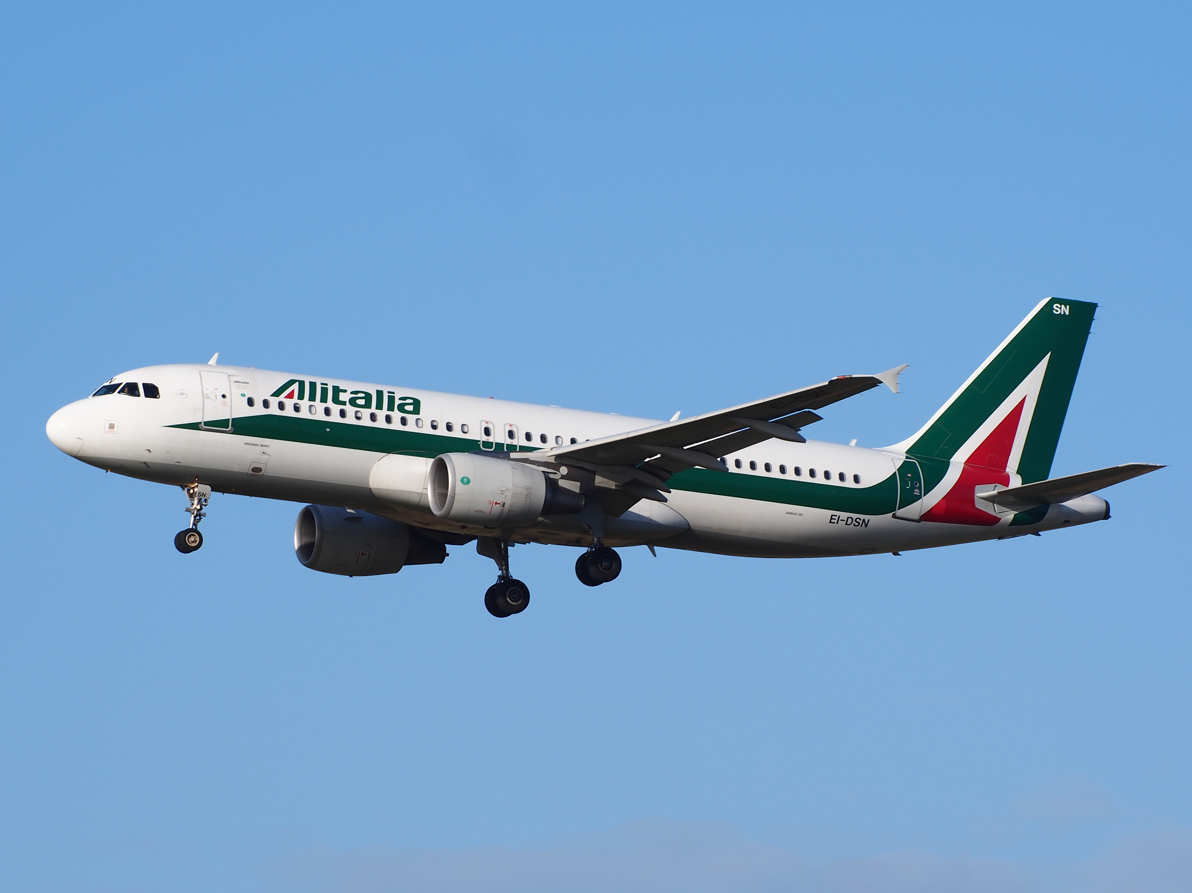 Photographed at Schiphol, Amsterdam airport, (IATA: AMS, ICAO: EHAM), the Netherlands.